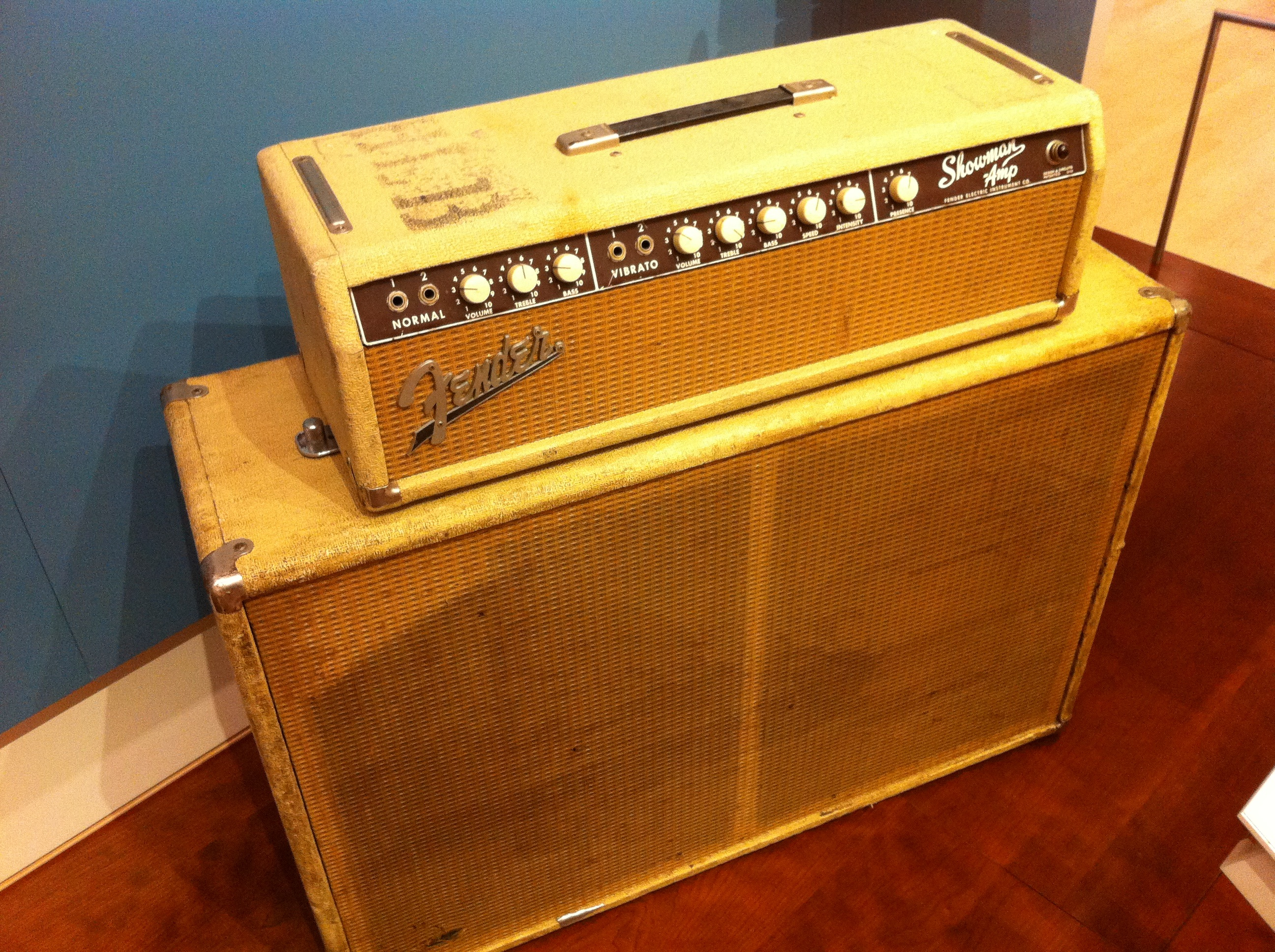 On loan from Dick Dale.